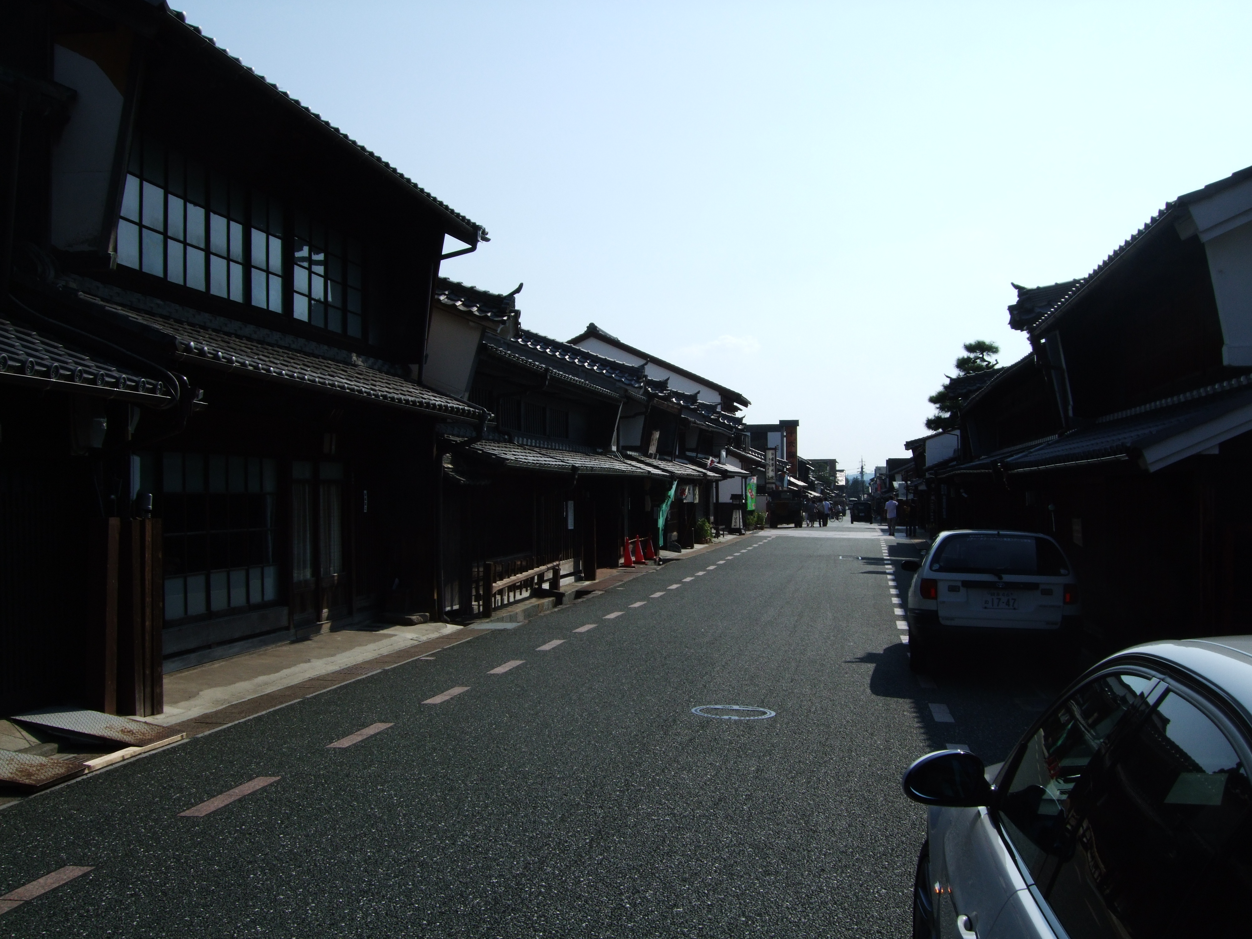 Minomachi street which is famous for Udatsu.